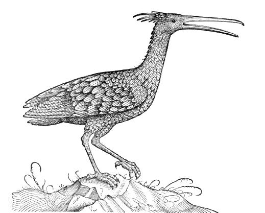 A Northern Bald Ibis (Corvo Sylvatico) from Gesner's Historiæ animalium, book III, 1555